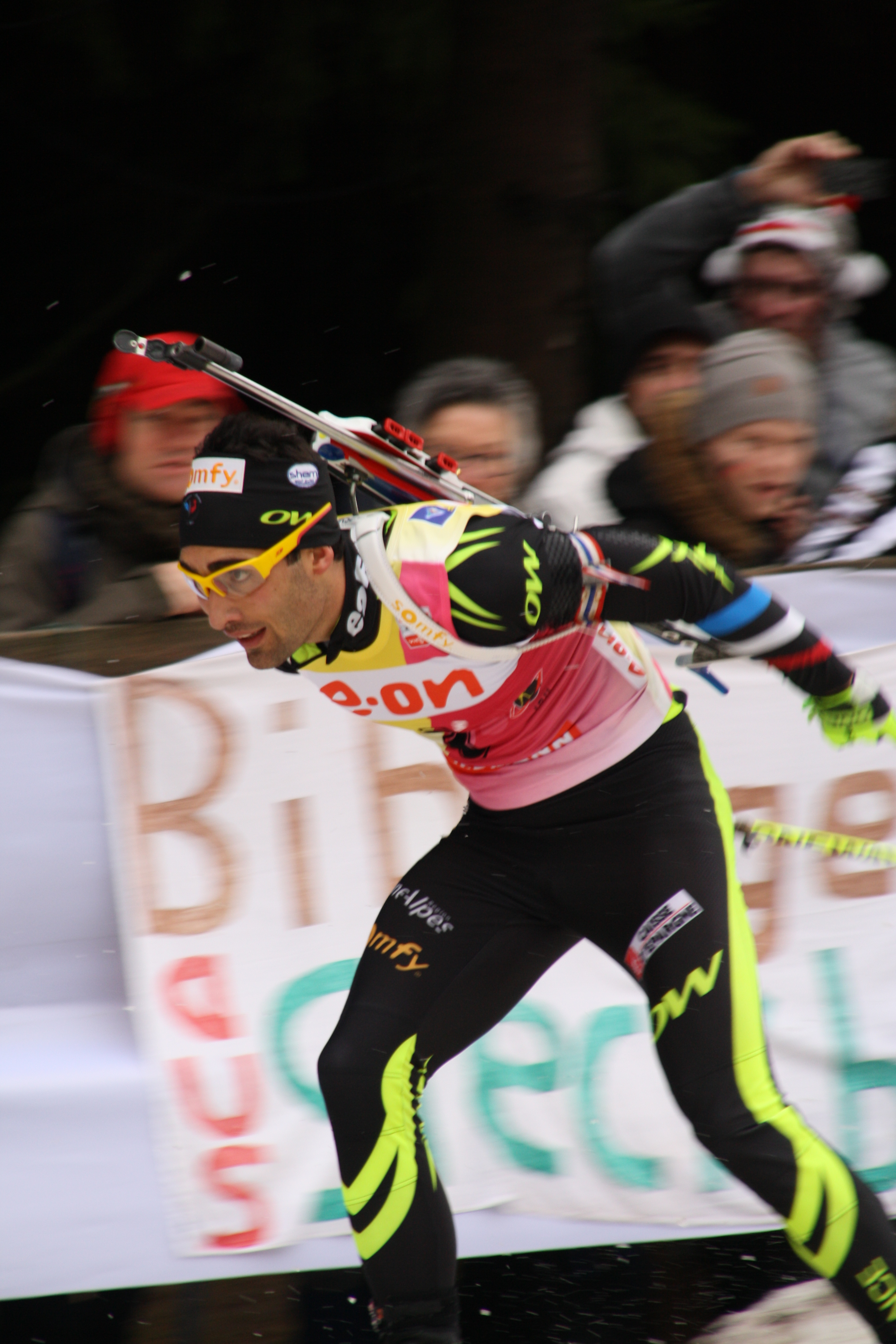 Biathlon World Cup Oberhof 2014 - Mens Pursuit